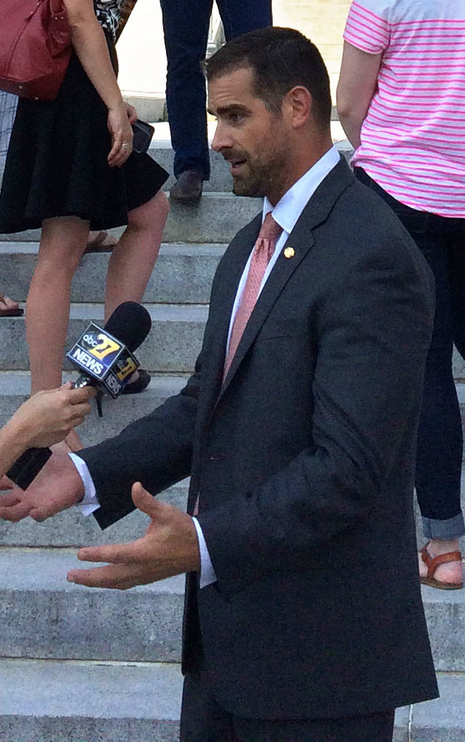 In front of the Pa. statehouse on June 26 after the Supreme Court ruling.